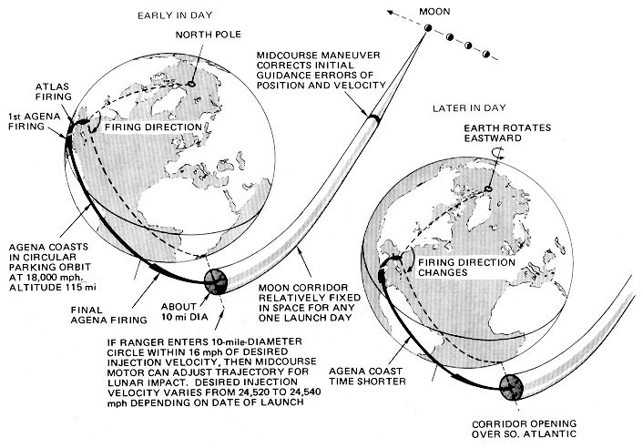 Figure showing a parking orbit, from NASA report SP-4210.